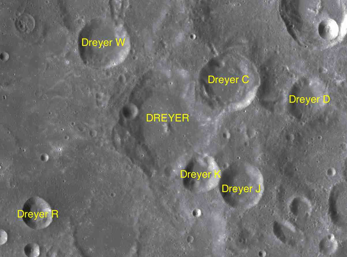 Part of the chart LAC-64 used for the presentation